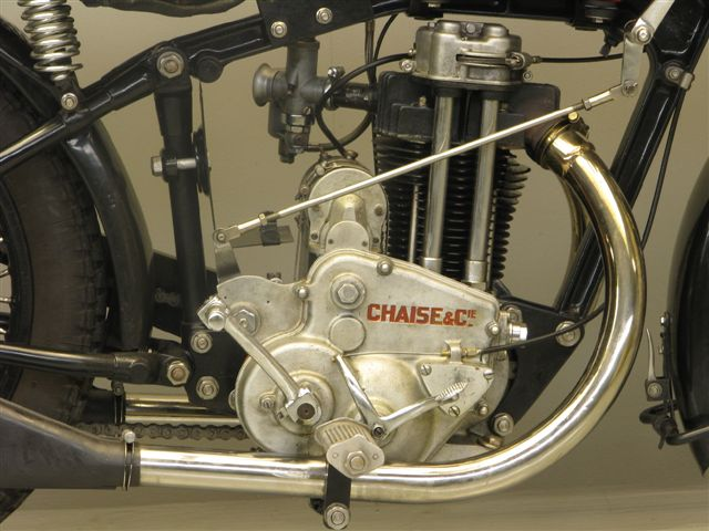 Chaise single cylinder 500 cc OHV engine from 1930 used in a Dollar Motorcycle